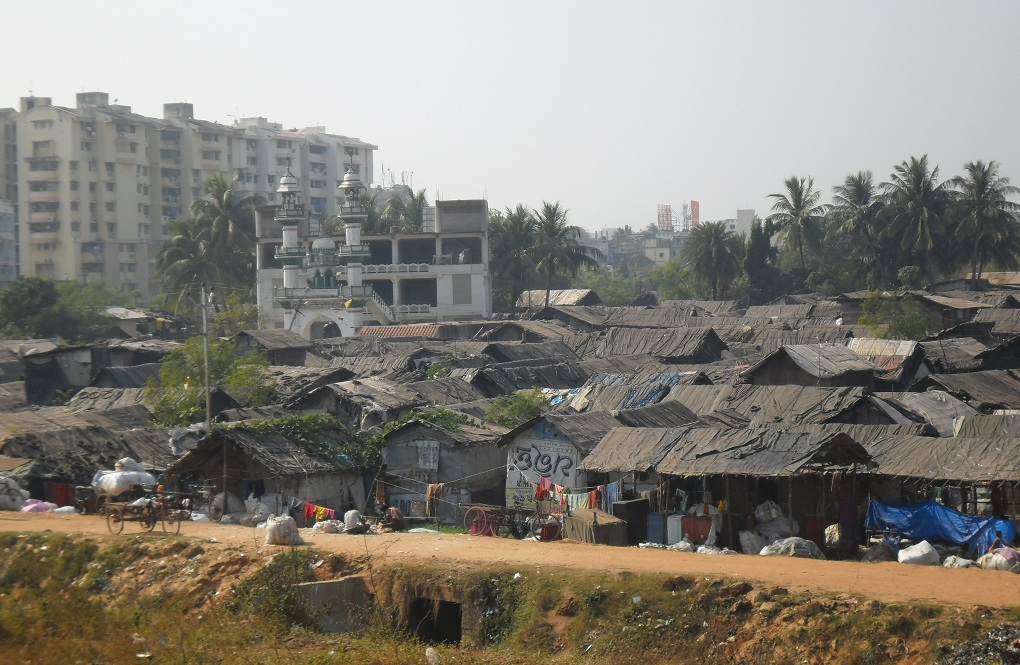 Slum in India